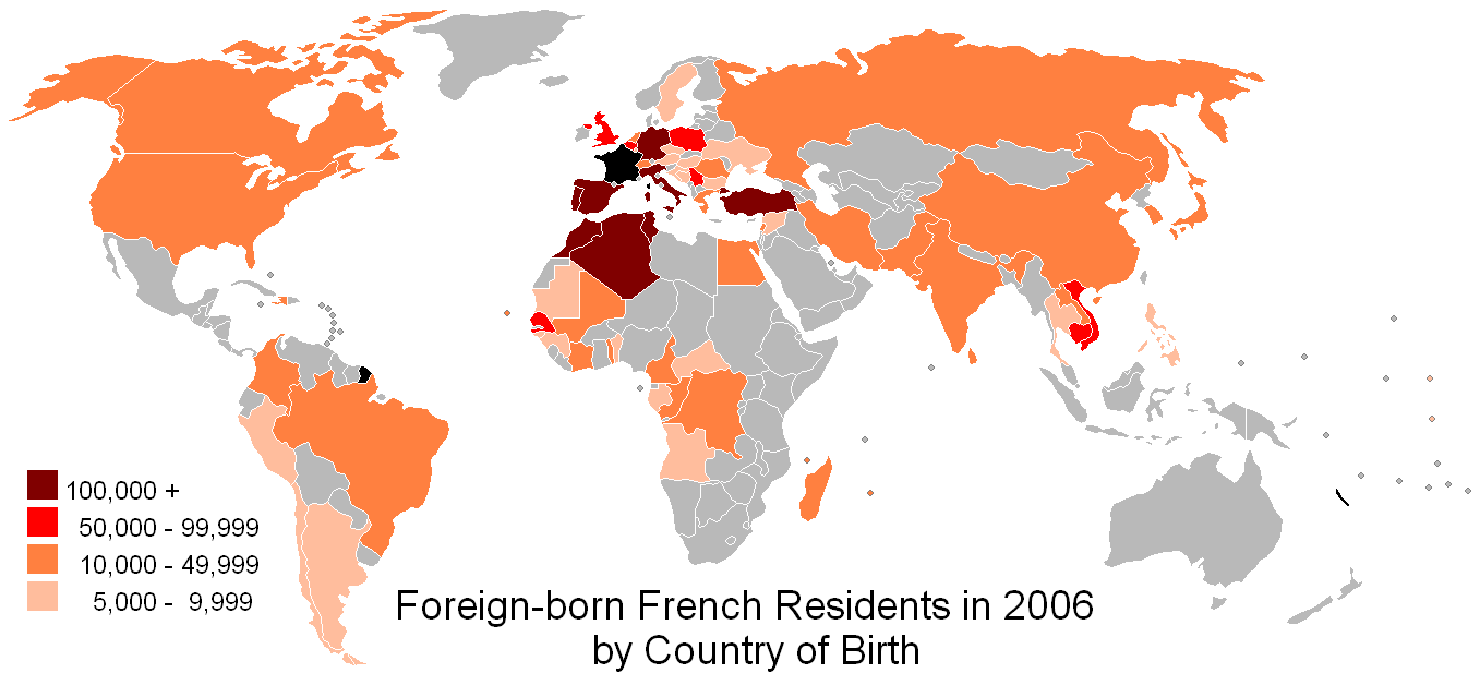 Country of birth of Persons resident in France in 1999 who are foreigners or naturalised French citizens. Persons identified as born in states since dissolved are enumerated in the largest successor state.